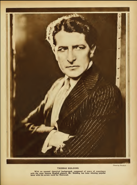 Thomas Holding Motion Picture Classic 1920